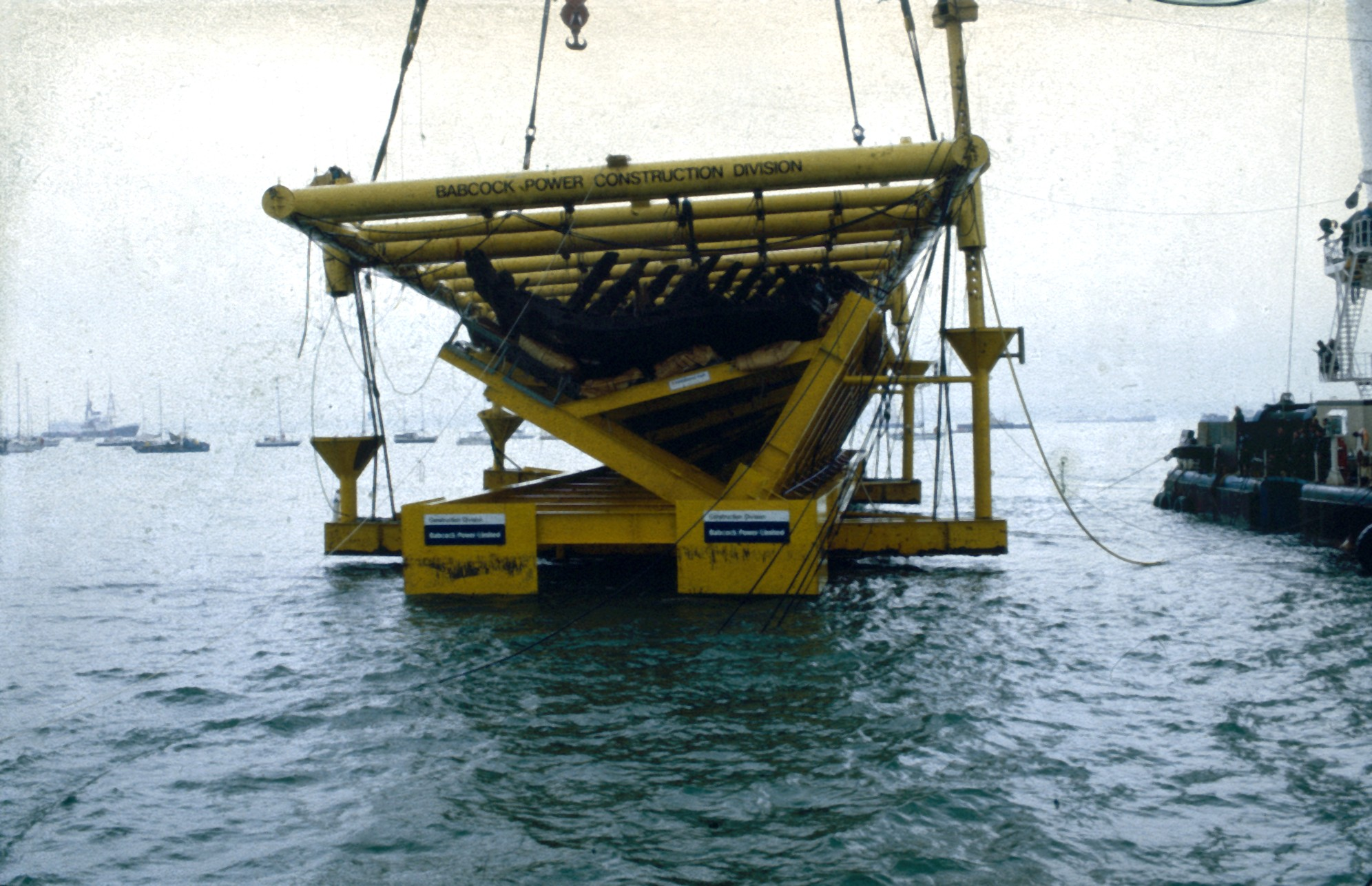 The final stages of the salvage of the 16th century carrack Mary Rose on October 11 1982.